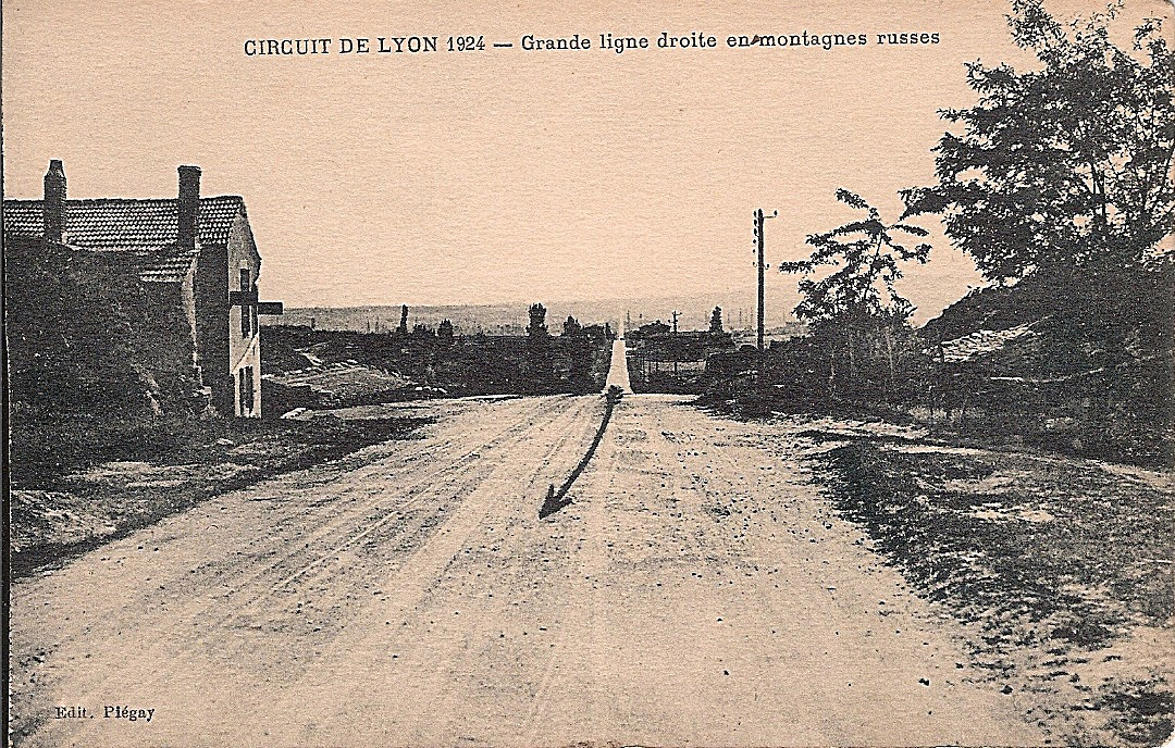 Circuit de Lyon 1924 - Montagnes russe - D42